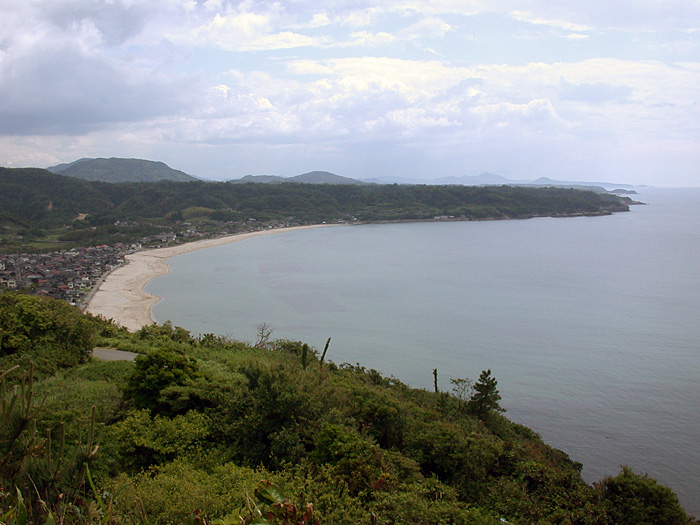 Maji, Nimacho, Ooda-shi, Shimane. It is the beach of singingsand, whole view of Kotogahama Beach.